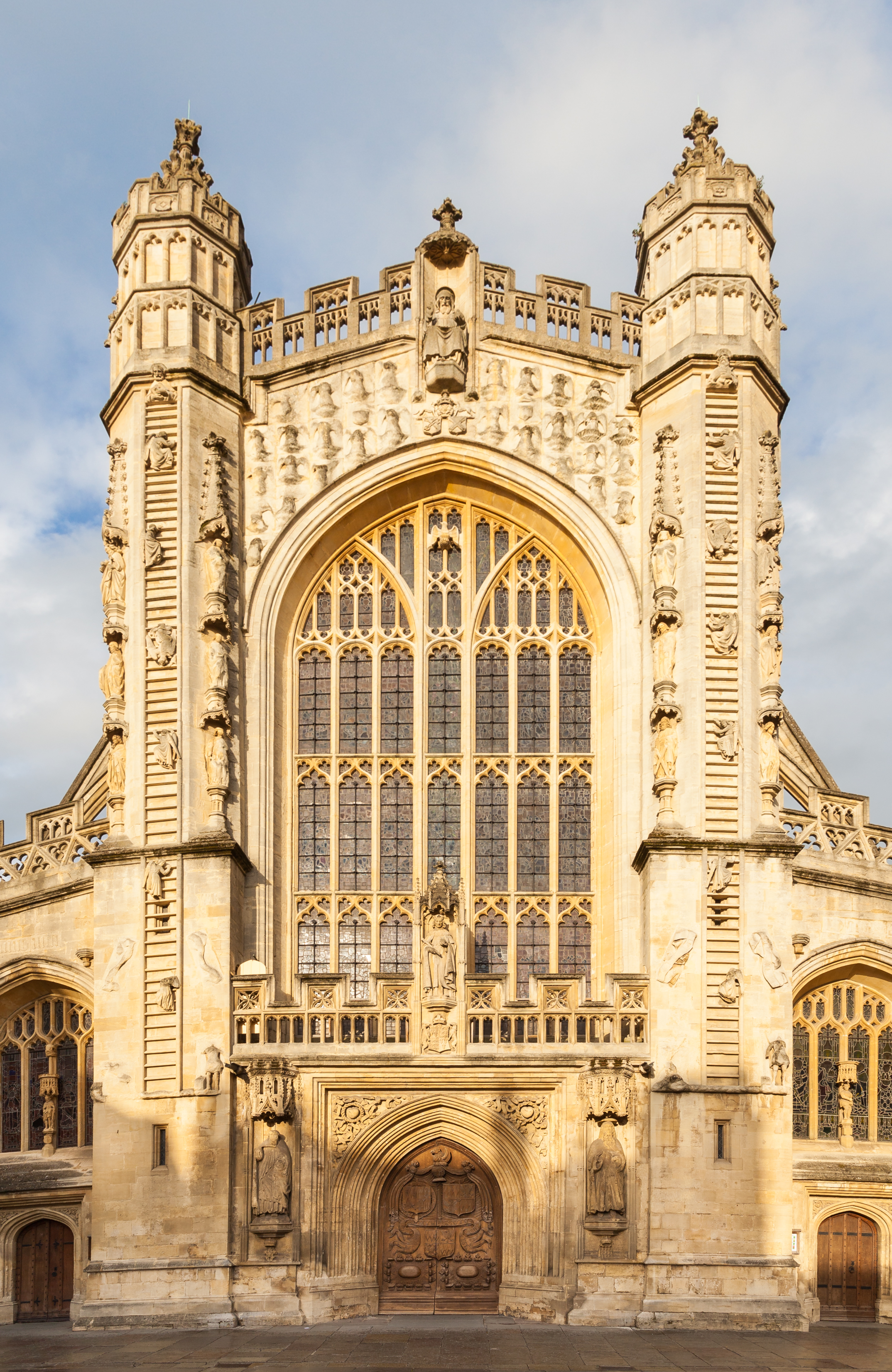 Bath Abbey, Bath, England